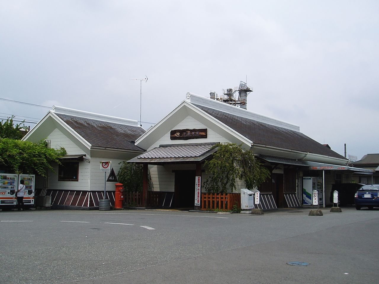 Shimosoga Sta. ,Central Japan Railway Co.